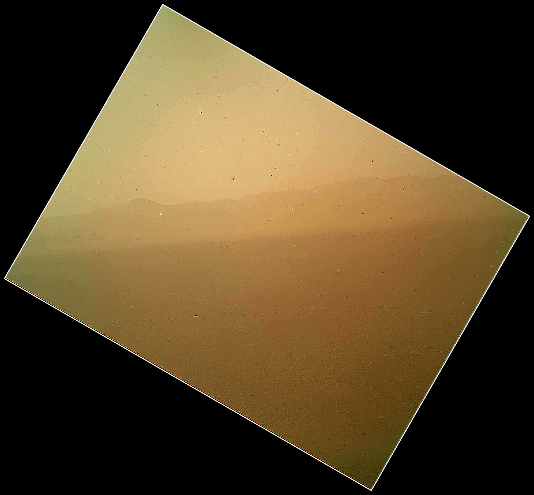 This view of the landscape to the north of NASA's Mars rover Curiosity was acquired by the Mars Hand Lens Imager (MAHLI) on the afternoon of the first day after landing. (The team calls this day Sol 1, which is the first Martian day of operations; Sol 1 began on Aug. 6, 2012.) In the distance, the image shows the north wall and rim of Gale Crater. The image is murky because the MAHLI's removable dust cover is apparently coated with dust blown onto the camera during the rover's terminal descent. Images taken without the dust cover in place are expected during checkout of the robotic arm in coming weeks. The MAHLI is located on the turret at the end of Curiosity's robotic arm. At the time the MAHLI Sol 1 image was acquired, the robotic arm was in its stowed position. It has been stowed since the rover was packaged for its Nov. 26, 2011, launch. The MAHLI has a transparent dust cover. This image was acquired with the dust cover closed. The cover will not be opened until more than a week after the landing. When the robotic arm, turret, and MAHLI are stowed, the MAHLI is in a position that is rotated 30 degrees relative to the rover deck. The MAHLI image shown here has been rotated to correct for that tilt, so that the sky is "up" and the ground is "down". When the robotic arm, turret, and MAHLI are stowed, the MAHLI is looking out from the front left side of the rover. This is much like the view from the driver's side of cars sold in the USA. The main purpose of Curiosity's MAHLI camera is to acquire close-up, high-resolution views of rocks and soil at the rover's Gale Crater field site. The camera is capable of focusing on any target at distances of about 0.8 inch (2.1 centimeters) to infinity. This means it can, as shown here, also obtain pictures of the Martian landscape.